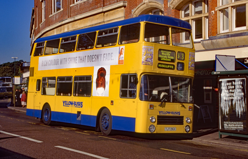 Rare Leyland Olympian ONLXB/1R Marshall in Bournemouth in 1997. Fleet number 196, registration number TJT 196X. Scanned from a Fujichrome 35 mm slide